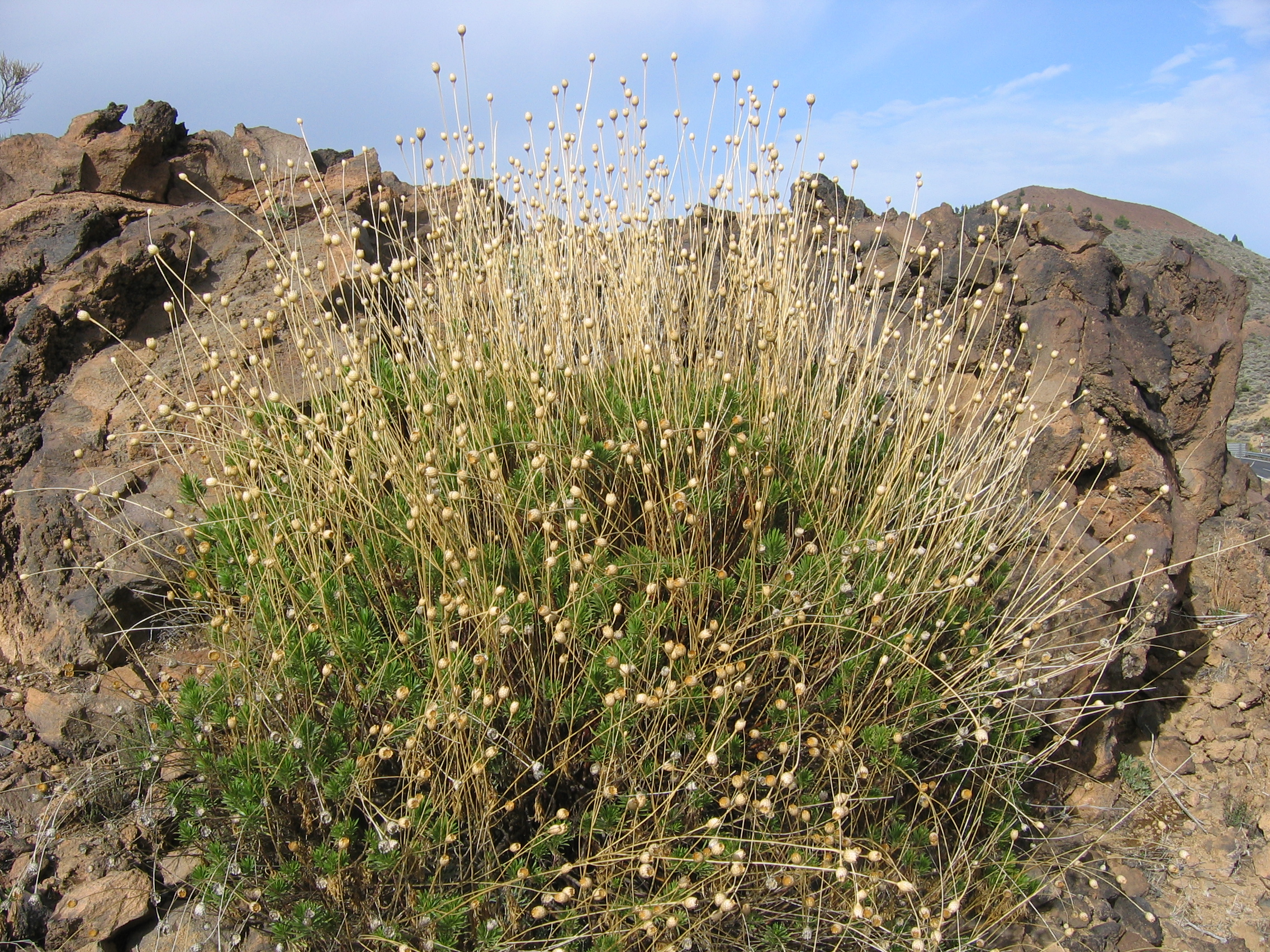 Cheirolophus teydis (Asteraceae)